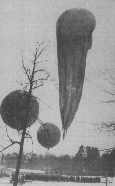 High altitude balloon before the start.